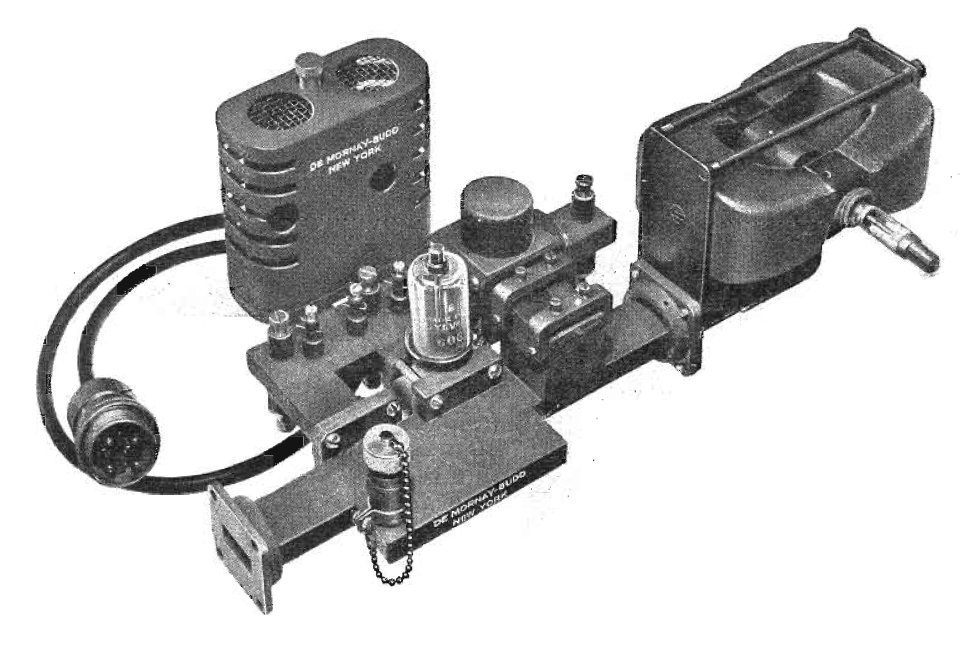 The magnetron and other microwave components of an early X band commercial airport radar transmitter, the De Mornay-Budd No. 412 RF unit, from an advert in a 1947 electronics magazine. It consists of a 9.375 GHz 20 kW peak power cavity magnetron tube (right) mounted between the poles of two alnico horseshoe magnets, its output feeding into a waveguide with a TR (transmit/receive) switch, connected to the receiver portion of the radar (upper waveguide). The waveguide aperture (left) is connected to the waveguide going to the dish antenna feed horn. In operation, the magnetron emits brief pulses of microwaves. During each pulse the 1B35 ATR and 1B24 TR tubes making up the TR switch is set to "transmit" to protect the sensitive receiver from the powerful output. Each pulse passes through the TR switch and waveguide to the antenna. Then the TR switch is set to "receive". The weak return pulse of microwaves reflected by the aircraft is received by the antenna and passes back down the waveguide to the TR switch, which routes it to the superheterodyne receiving components in the upper waveguide section. Here a 2K25 reflex klystron tube generates a W:local oscillator signal. This is mixed with the return signal in a 1N21 point-contact germanium diode mixer. The intermediate frequency (IF) is filtered from the output of the diode by a vacuum tube IF amplifier section and creates the display on the radar screen (not shown). The capped coaxial connecter (lower left) is a directional coupler which allows the output to be conveniently sampled.